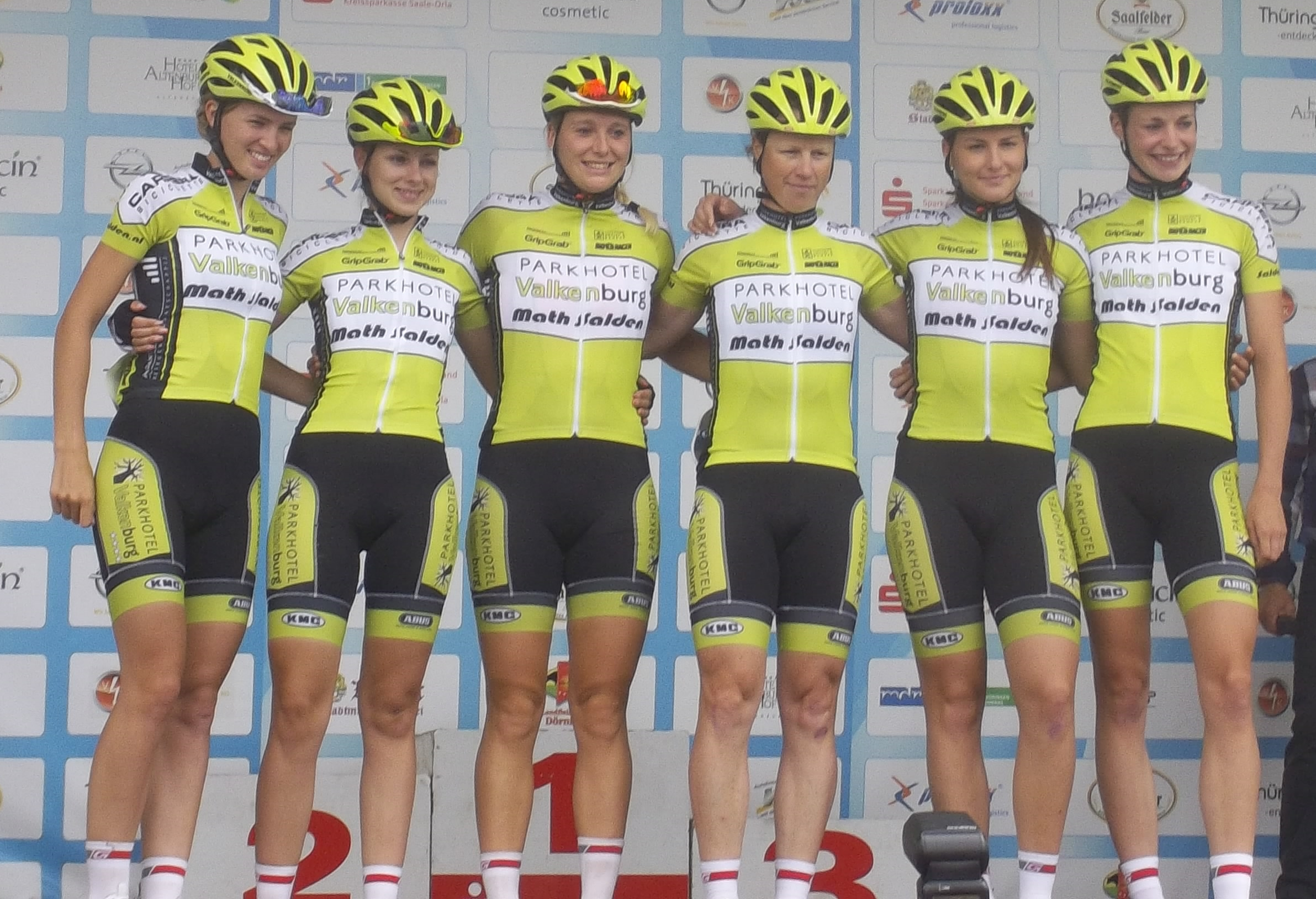 Valkenburg parkhotel team at Thuringen Rundfahrt 2014, presentation of stage 1.